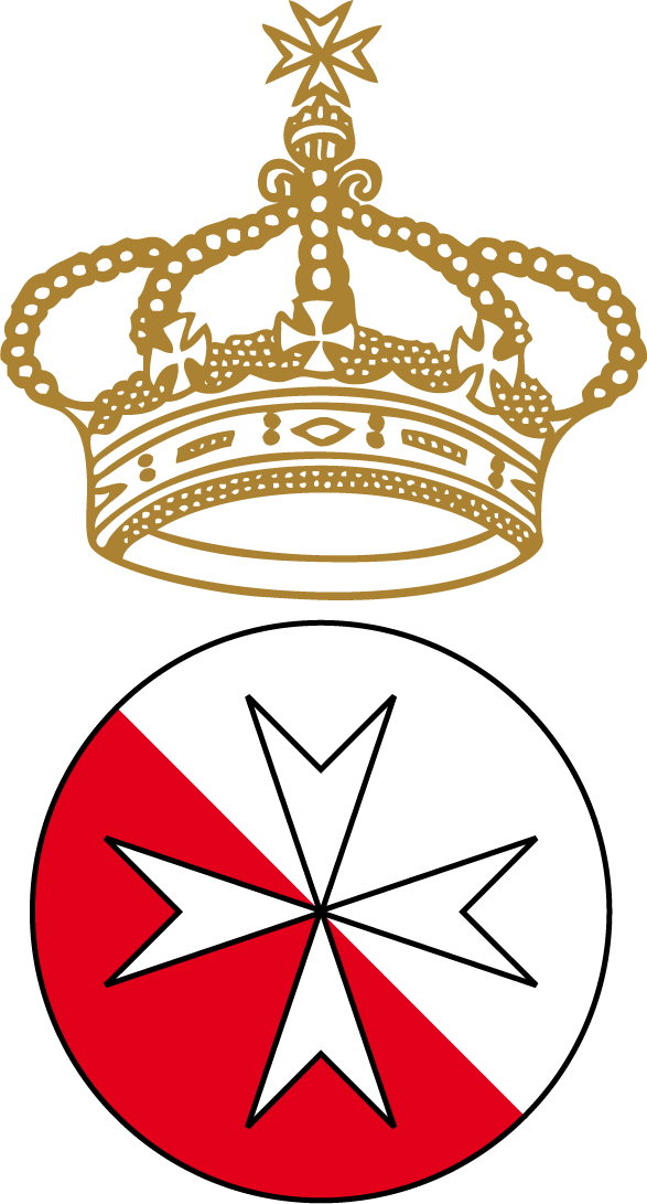 Lovagrend Címere